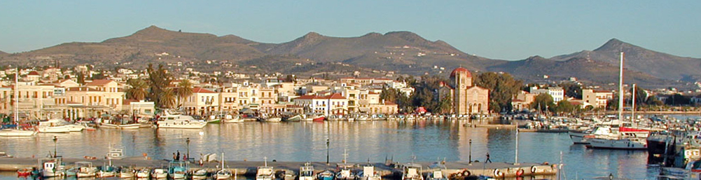 Aegina port. Photograph taken by Marsyas 13:18, 30 October 2005 (UTC)